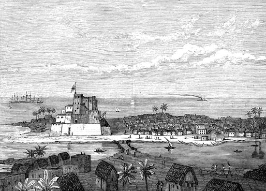 Elmina, end of the 19th century, seen from the north.